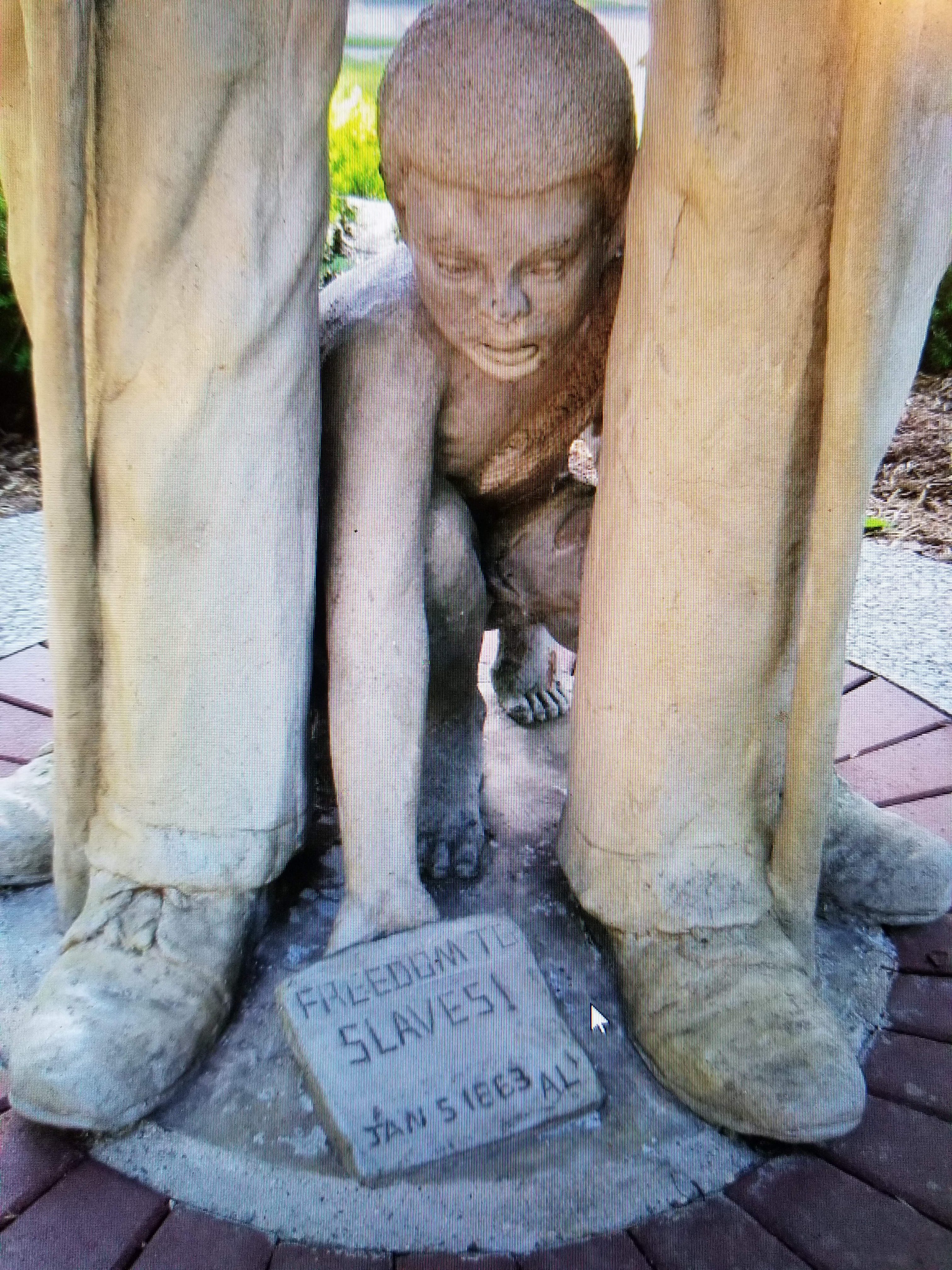 Close up of the slave child crouched at the soldiers feet